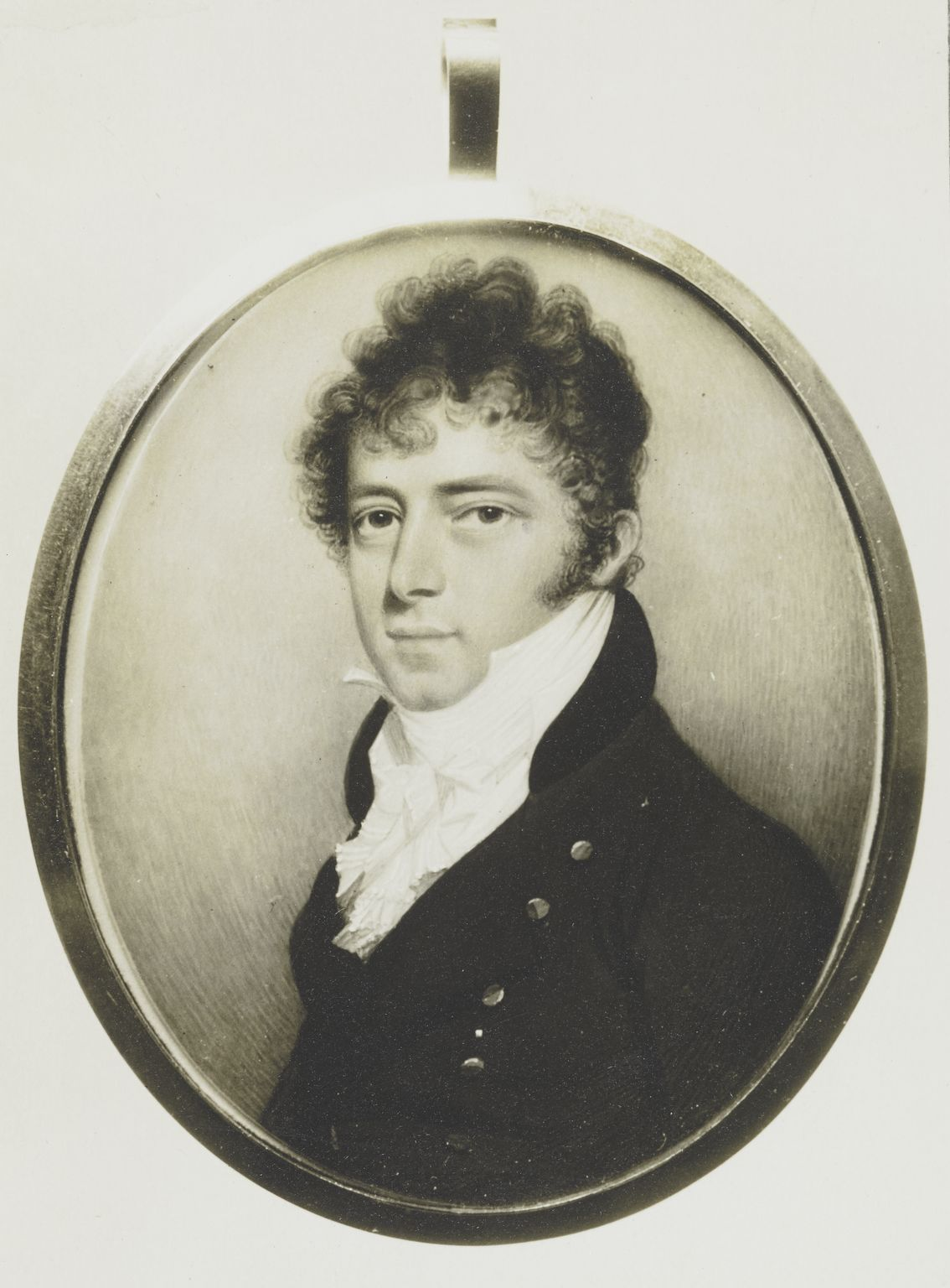 Title:Joseph Alston. Author/Artist:Anonymous, American School, 1801-1850. Creation Date:1801 Description:Graphic reproduction(s) with documentation of a miniature. 2 5/8 x 2 in. Provenance:Mr. Herbert Lee Pratt, Glen Cove, Long Island, New York; bequeathed by him to Amherst College, Amherst, Massachusetts; destroyed in 1948 in transit to a loan exhibition. Current Repository:Amherst College, Amherst, Massachusetts, United States, destroyed.